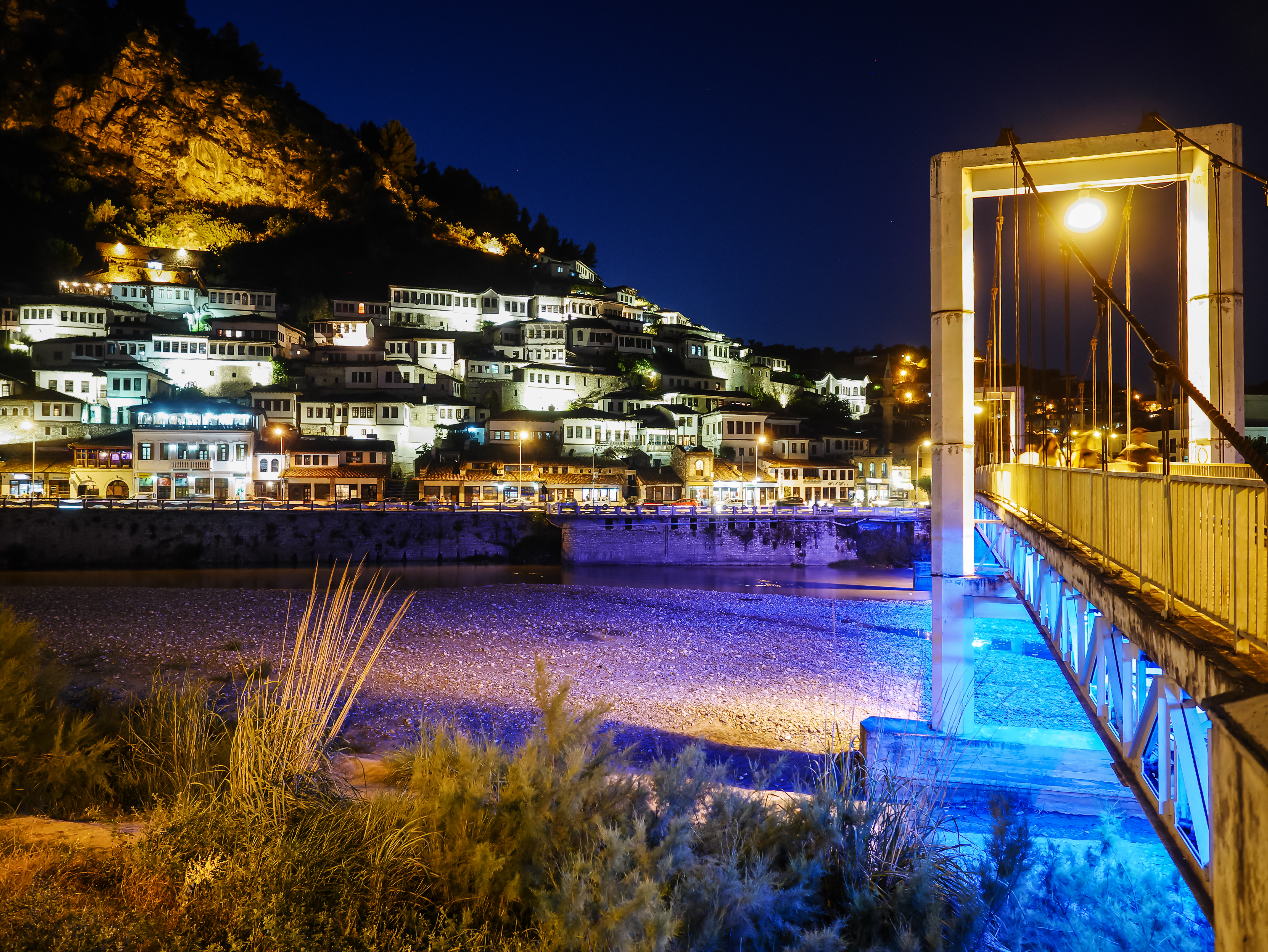 City of Berat UNESCO 2016